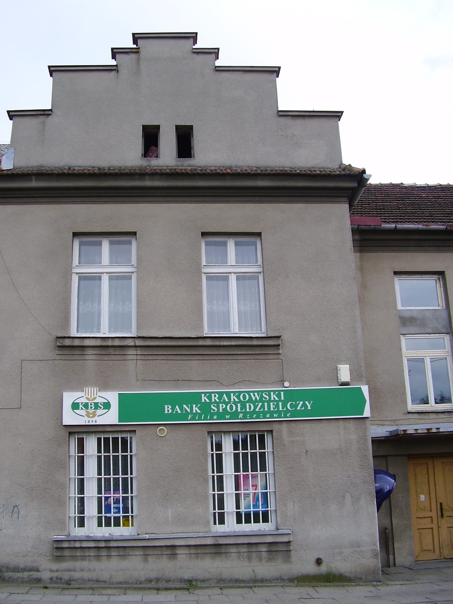 Branch of Krakowski Bank Spółdzielczy in Rzezawa (Poland).